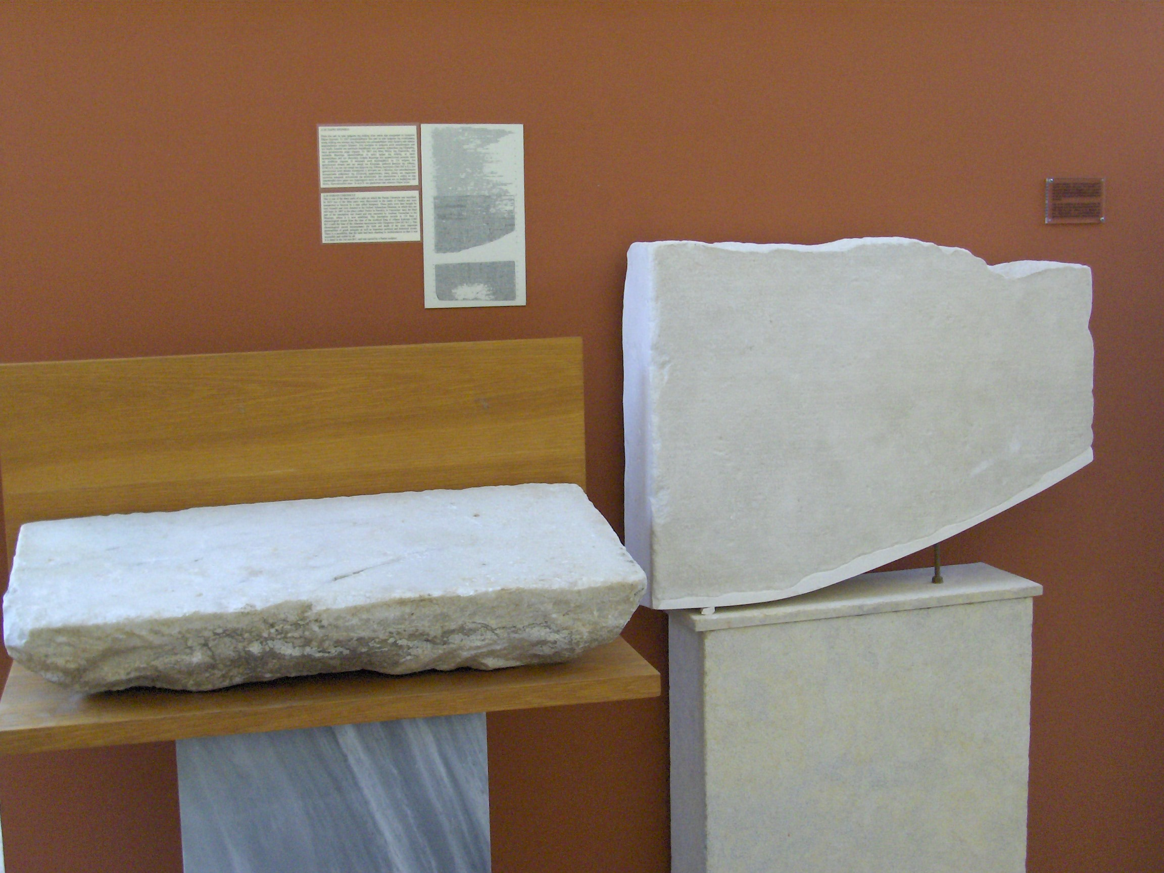 The Parian Chronicle, a Greek chronological table, covering the years from 1581 BC to 264 BC, inscribed on a stele. On the left is the fragment at the Archaeological Museum of Paros (exhibit A26). On the right is plaster cast from the fragment at the Ashmolean Museum (more info).